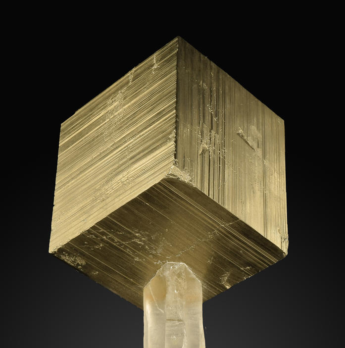 Pyrite, en: Quartz Size: 6.2 cm Locality: Sample originated from Spruce Claim, Washington Description: A sample of pyrite and quartz. Iron pyrite, also known as Fool's Gold due to its resemblance to gold, often occurs in quartz veins. Pyrite is an important source of sulfur dioxide, which is primarily used to create sulfuric acid, an important industrial acid. In fact, consumption of sulfuric acid has been regarded as one of the best indexes of a nation's industrial development. More sulfuric acid is produced in the United States every year than any other chemical. For more information about sulfur, visit the USGS Minerals webpage: Sample provided by Carlin Green